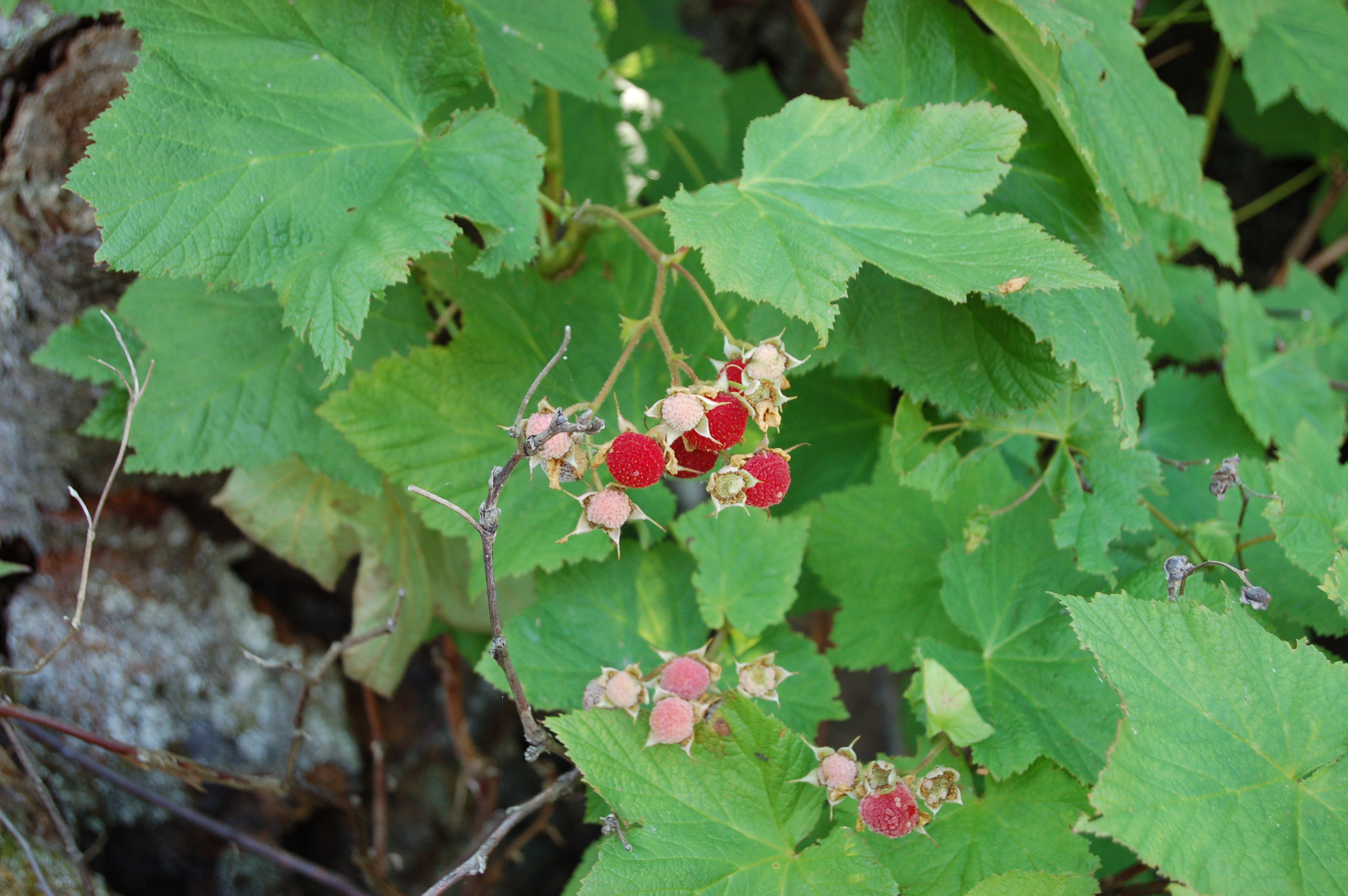 Ripened and developing Thimbleberries (Rubus parviflorus) along the Lake Superior shoreline. In Pictured Rocks National Lake Shore. The location is a Registered Michigan State Historic Site.